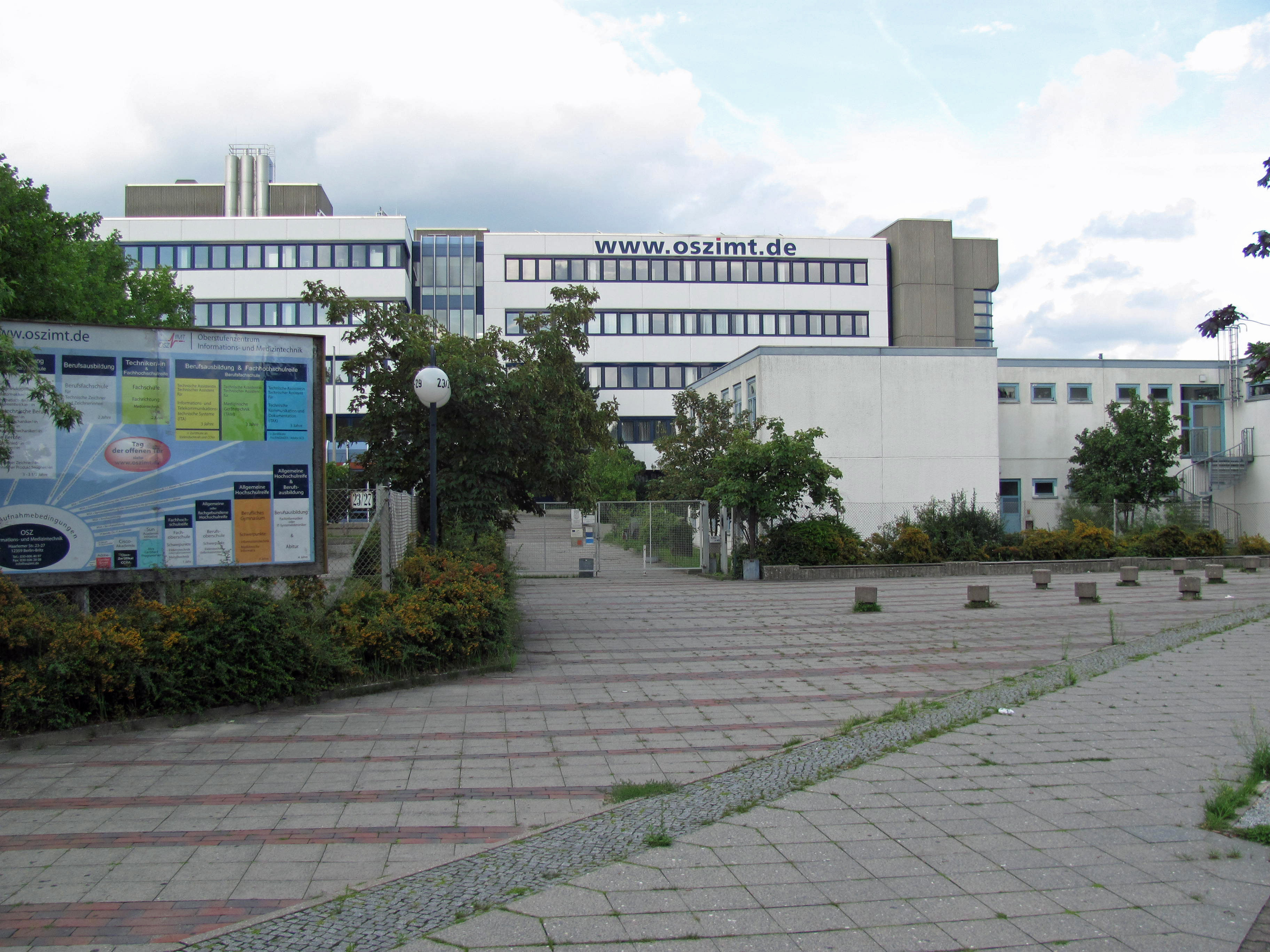 Main entrance from OSZ IMT.